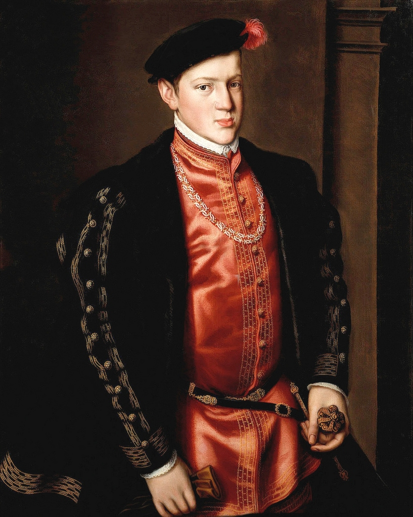 Portrait of João Manuel, Prince of Portugal (1537-1554)